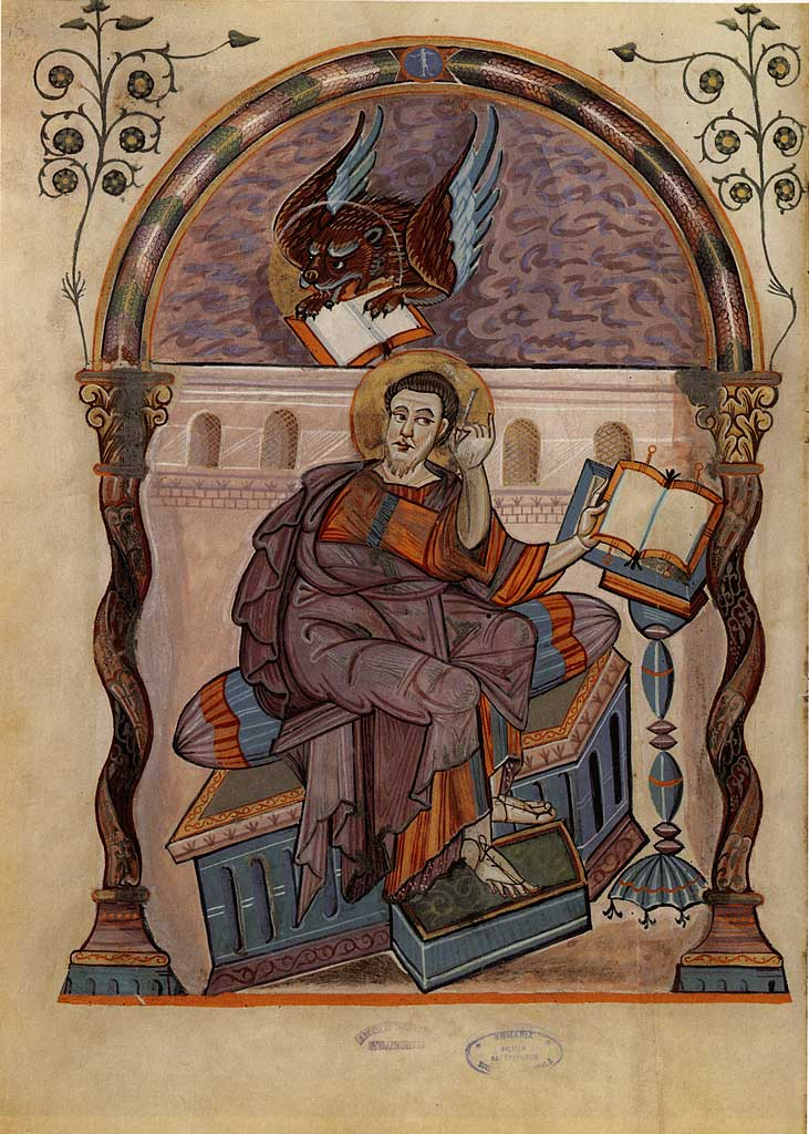 Mark the Evangelist, image 21 of the Codex Aureus of Lorsch or Lorsch Gospels, presumably written in the scriptorium of the Lorsch Abbey (Hofschule Karls des Großen), Germany. This Carolingian manuscript was stolen 1622 from the Bibliotheca Palatina in Heidelberg, during the Thirty Years' War. In order to be easy to sell, the codex was broken in four parts: First written part - Gospels of Matthew and Mark, preliminary matter and canon tables Todays location: Batthyaneum (National) Library, Alba Iulia, Romania Second written part - Gospels of Luke and John & Ivory panels from the rear cover Todays location: Vatican Library Ivory panels from the front cover Todays location: Victoria and Albert Museum, London, (Inv.-Nr. 138-1866)